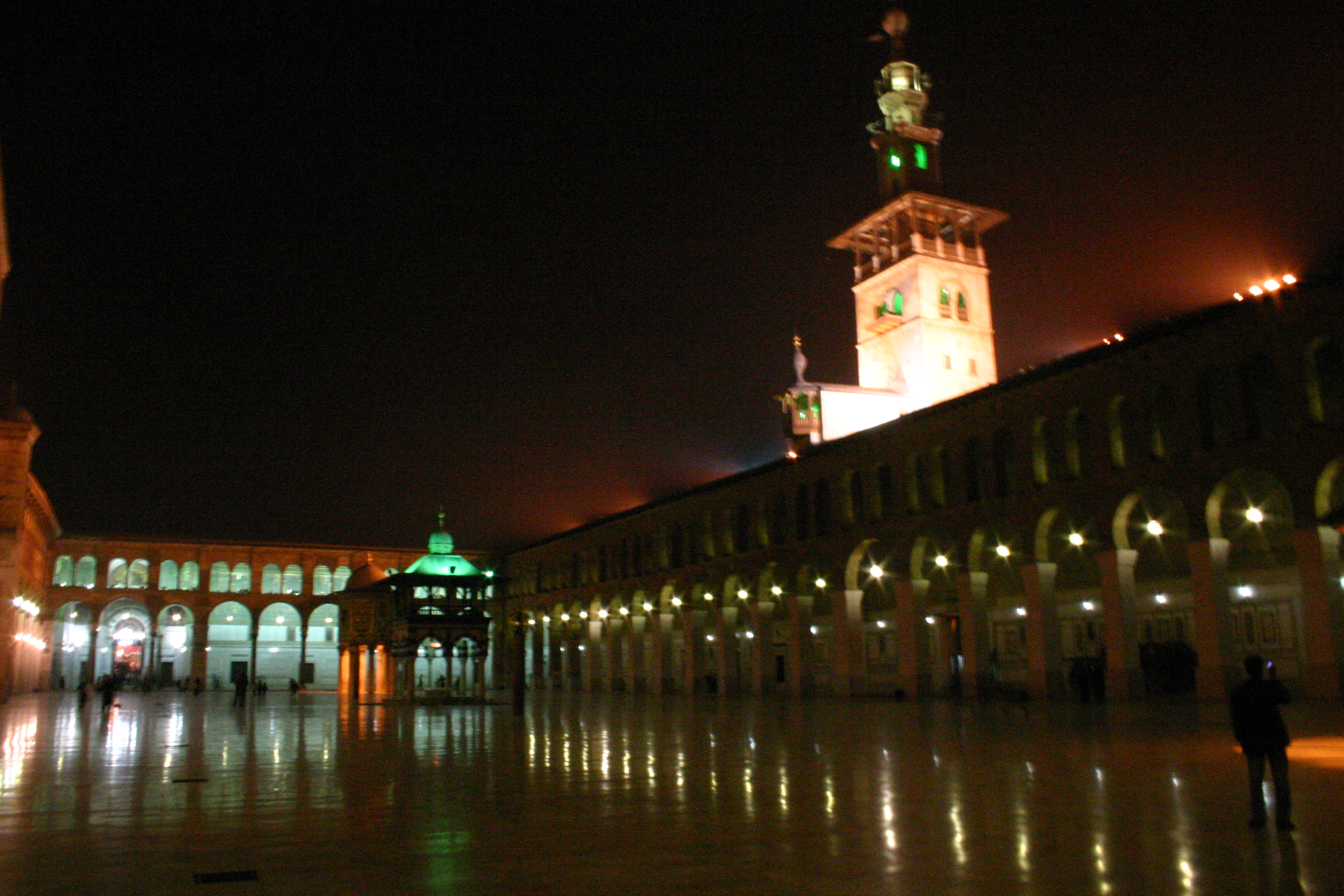 Umayyad Mosque, Damascus, Syria, 2006. Photo by Bertil Videt